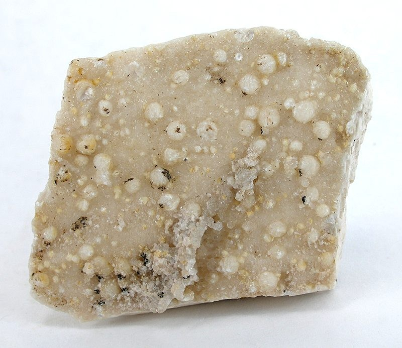 Perhamite Locality: Emmons Quarry (Uncle Tom Mt. Quarry), Uncle Tom Mt, Greenwood, Oxford County, Maine, USA (Locality at ) Size: 5.0 x 3.7 x 1.8 cm. A plate of feldspar featuring perhamite in spherical crystals aggregates upon the feldspar. The whole matrix is coated by a micro-layer of sparkly apatite druse.